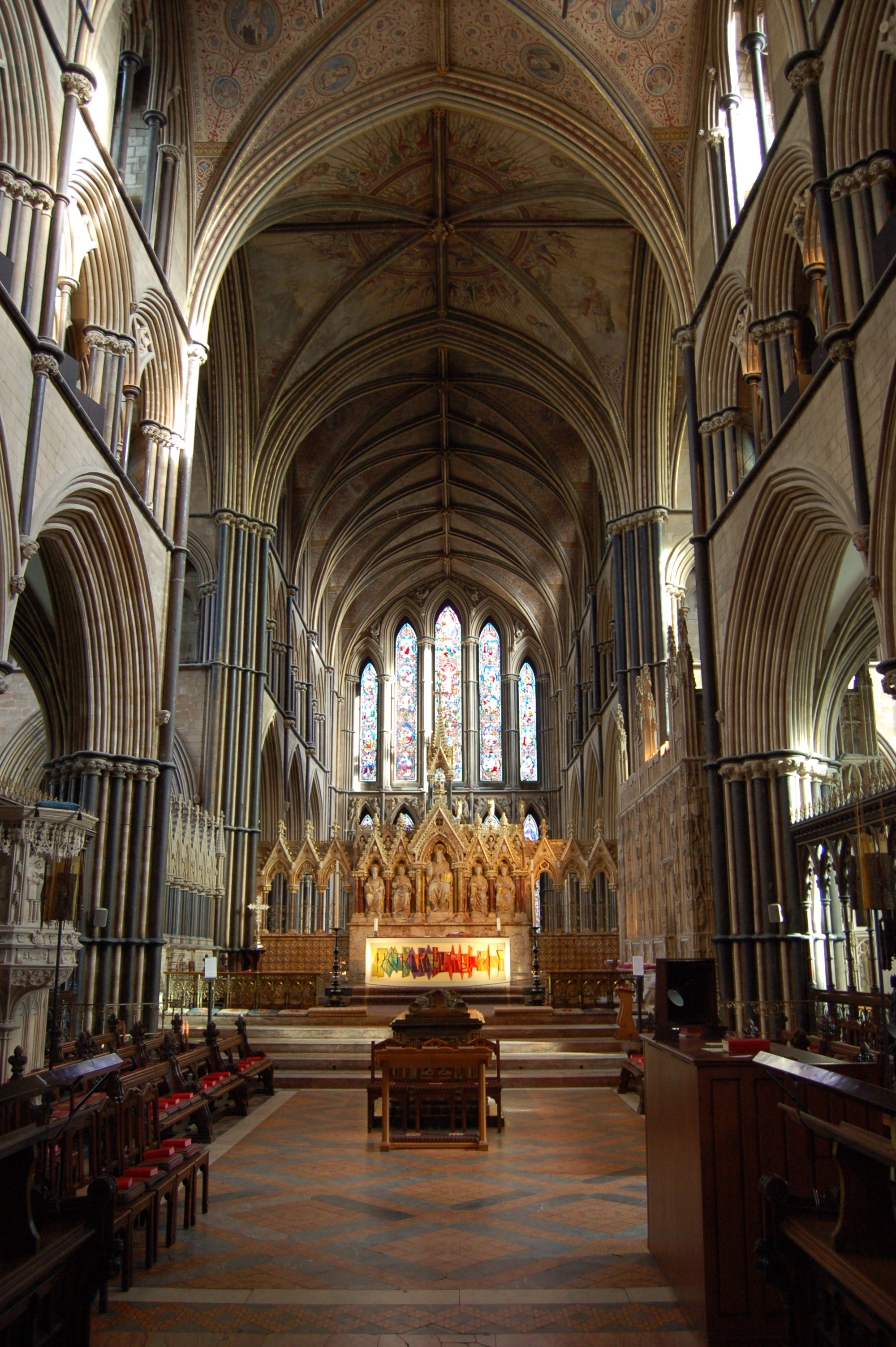 The east end of Worcester Cathedral with King John's tomb in the foreground.